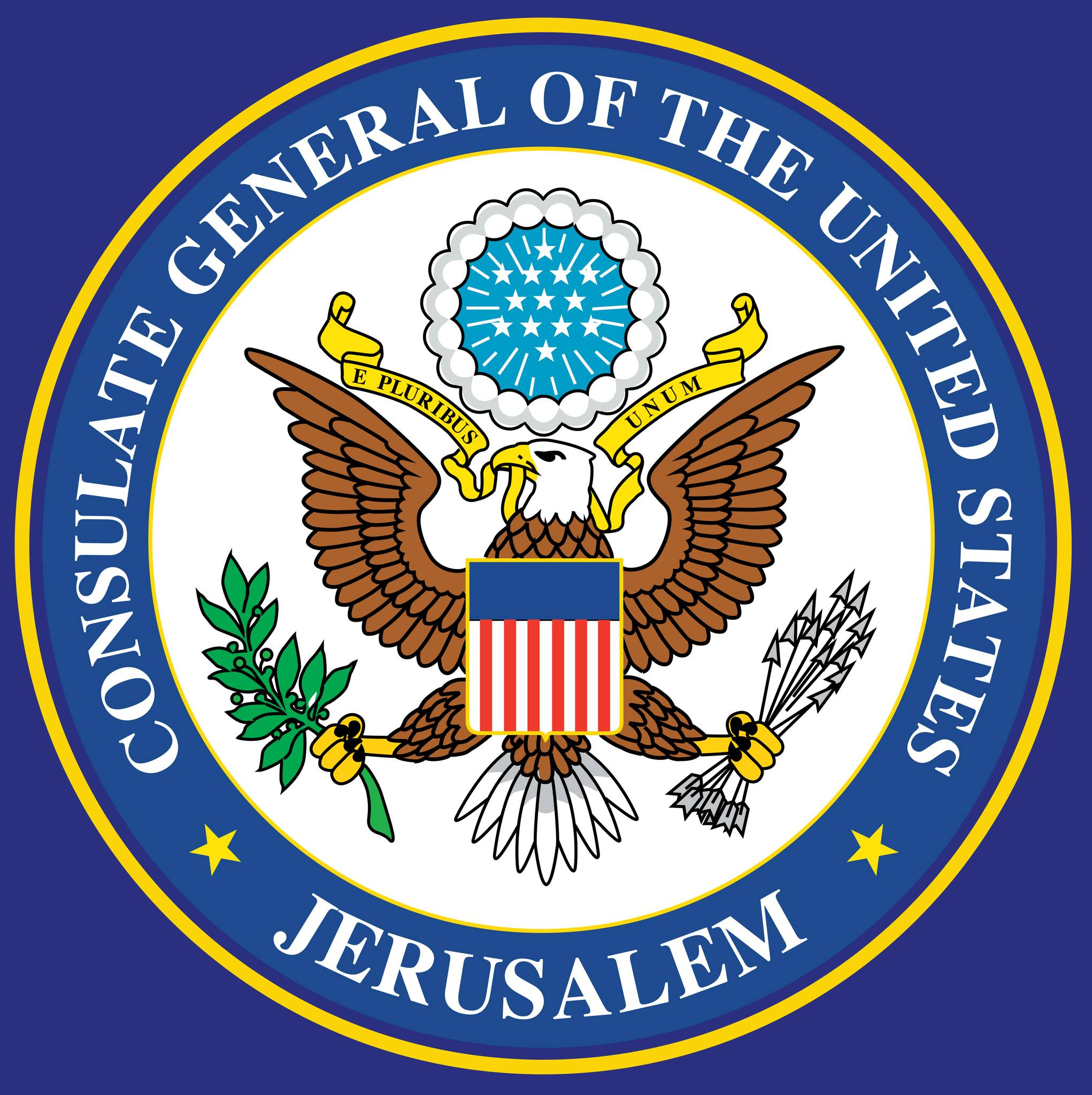 Seal of the Consulate General of the United States, Jerusalem